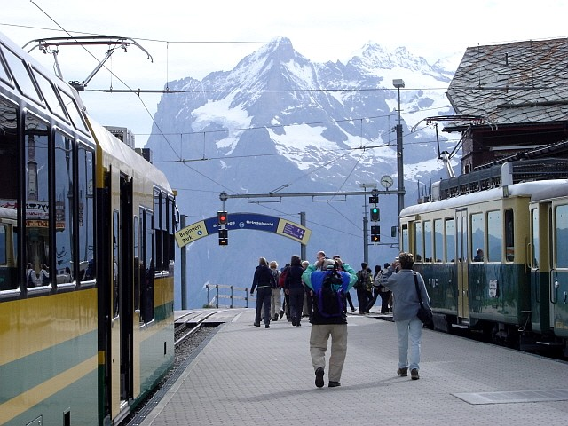 Kleine Scheidegg